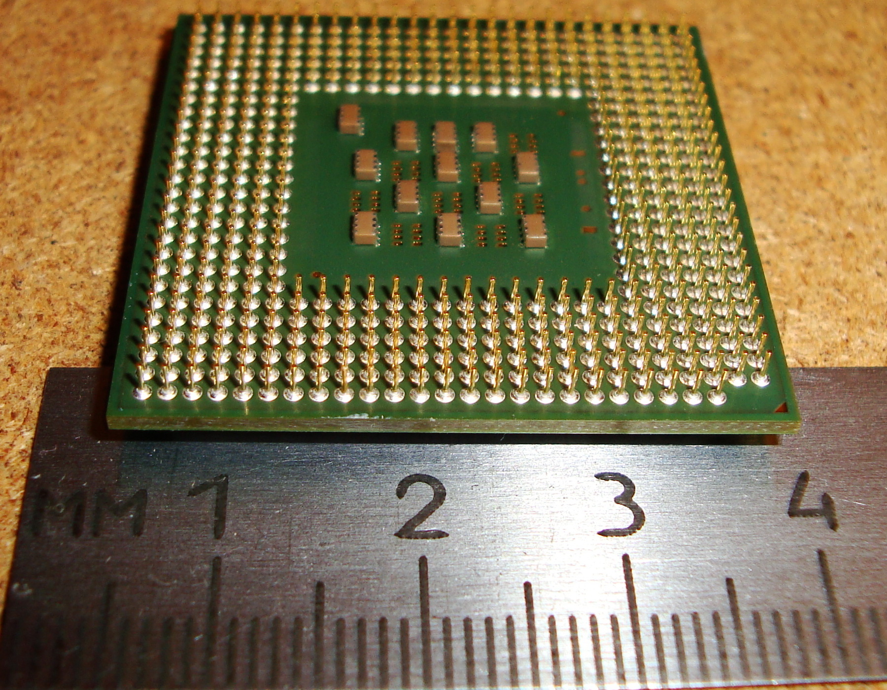 Intel Pentium 4 SL9PC (2.40GHz, 512kB L2 cache, 533MHz FSB) for Socket 478, bottom side